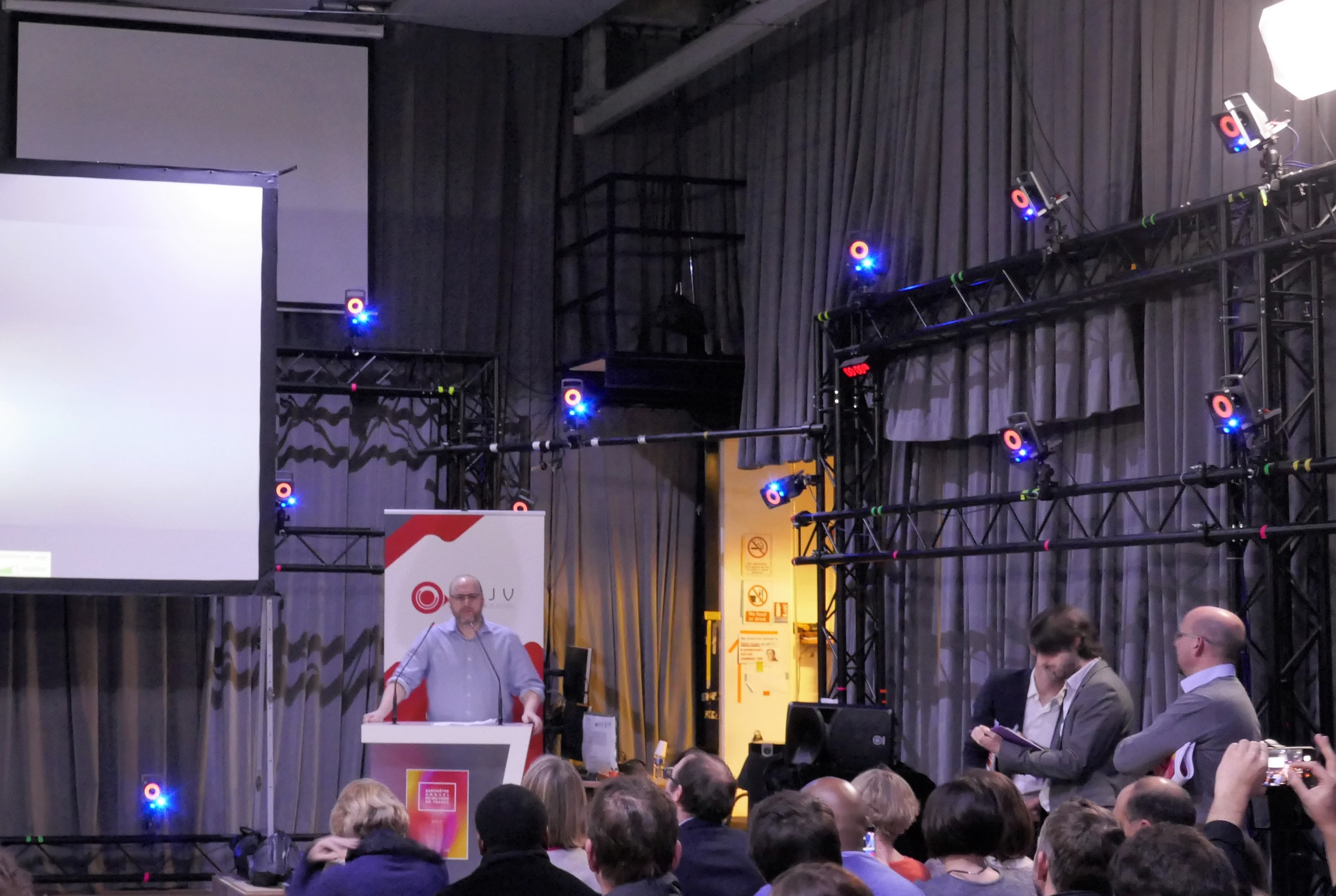 David Cage giving a speech in Quantic Dream's mocap studio (2017)